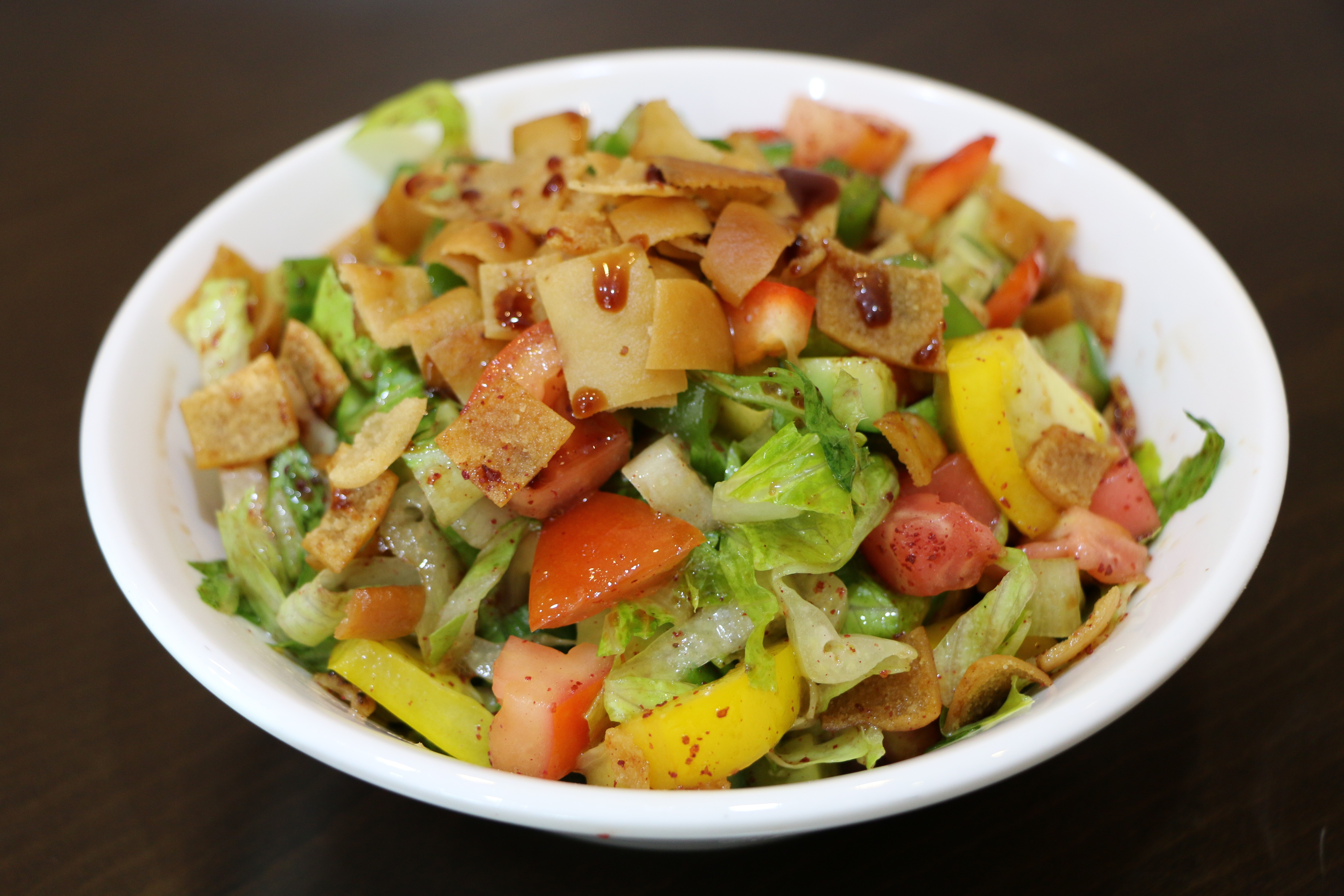 Arab Salad